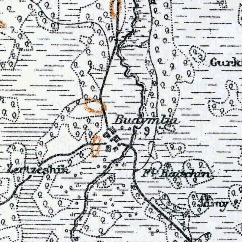 Budymlia on the map "Karte des Westlichen Russlands", U 35, 1917. According to Kujawsko-Pomorska Digital Library the map is in the public domain.